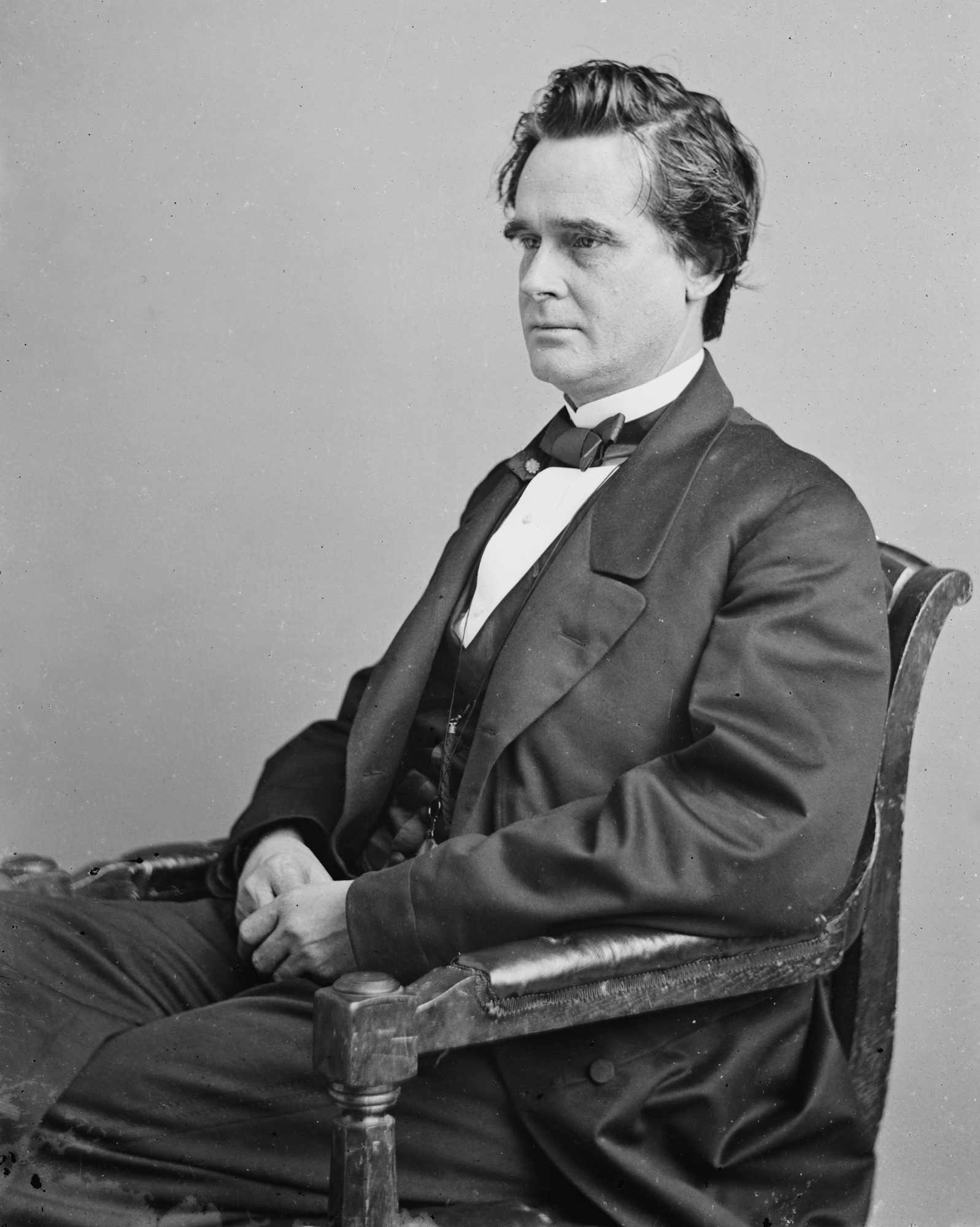 TITLE: Hon. Jas. Wilson Grimes CALL NUMBER: LC-BH82- 4837 B [P&P] REPRODUCTION NUMBER: LC-DIG-cwpbh-01937 (b&w copy scan) No known restrictions on publication. MEDIUM: 1 negative : glass, wet collodion. CREATED/PUBLISHED: [between 1855 and 1865] NOTES: Title from unverified information on negative sleeve. Of Iowa. Forms part of Brady-Handy Photograph Collection (Library of Congress). FORMAT: Portrait photographs 1850-1870. Glass negatives 1850-1870. REPOSITORY: Library of Congress Prints and Photographs Division Washington, D.C. 20540 USA DIGITAL ID: (b&w scan) cwpbh 01937